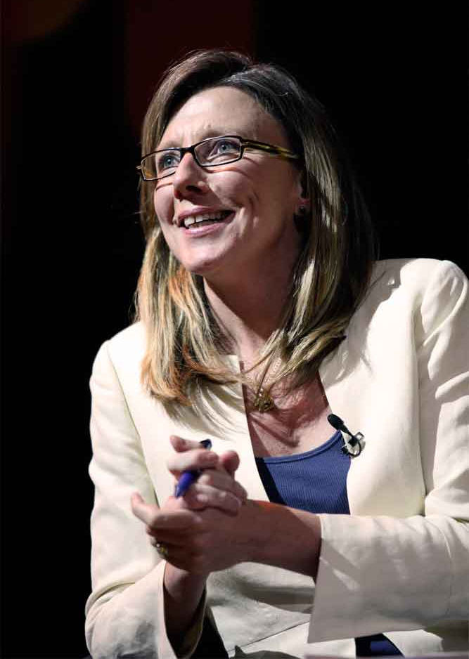 Sarah Montague as Conference chairperson at the 2011 NHS Confederation annual conference and exhibition, Manchester, England.